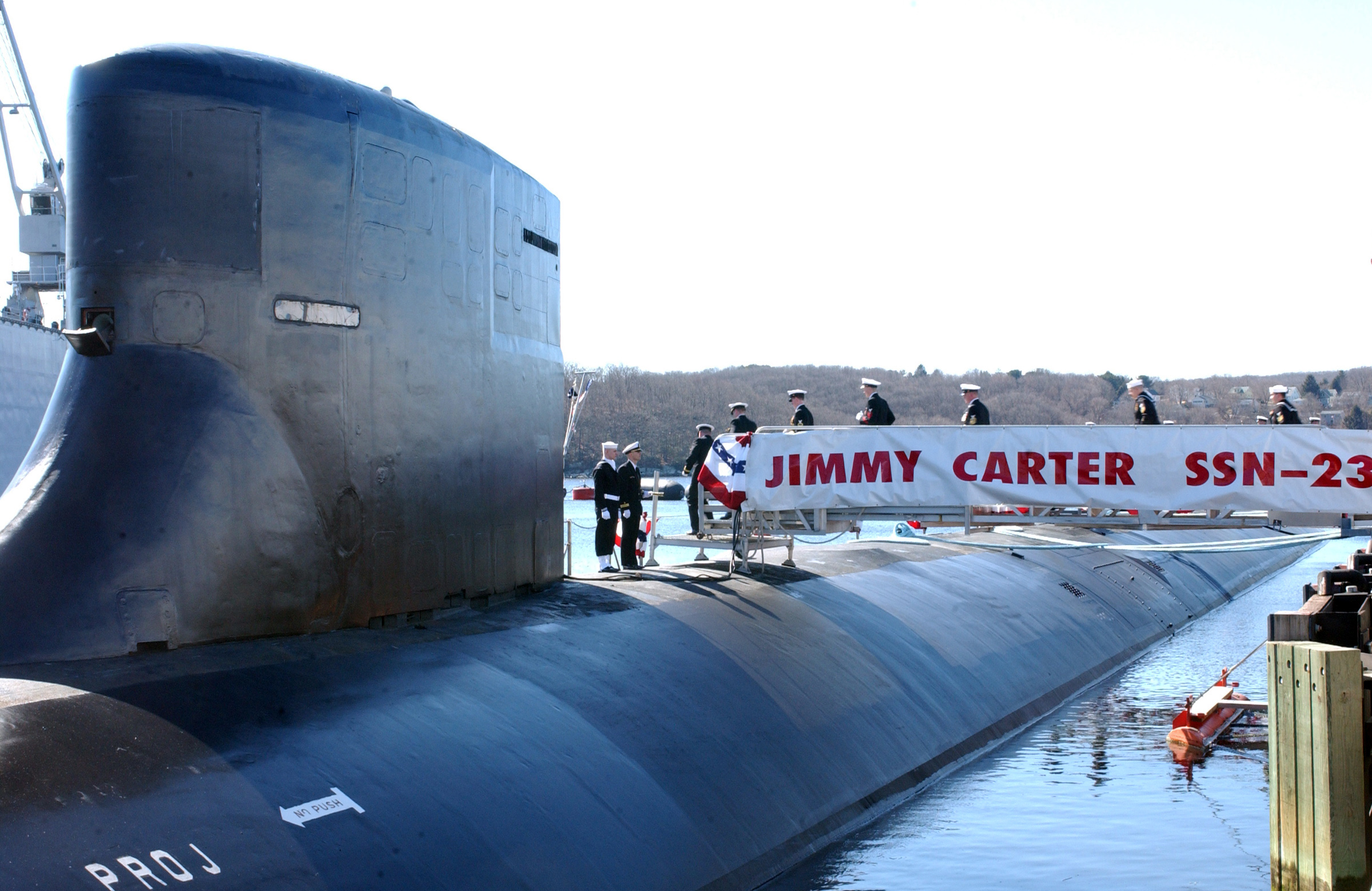 050219-N-7441H-016 Naval Submarine Base Groton, Conn. - The crew assigned to USS Jimmy Carter (SSN 23) bring her to life as they board the newly commissioned Seawolf-class nuclear-powered attack submarine. Jimmy Carter is the third and final submarine of the Seawolf-class. A unique feature of the Jimmy Carter is a 100-foot hull extension called the Multi-Mission Platform, which provides enhanced payload capabilities, enabling the submarine to accommodate the advanced technology required to develop and test a new generation of weapons, sensors and undersea vehicles.